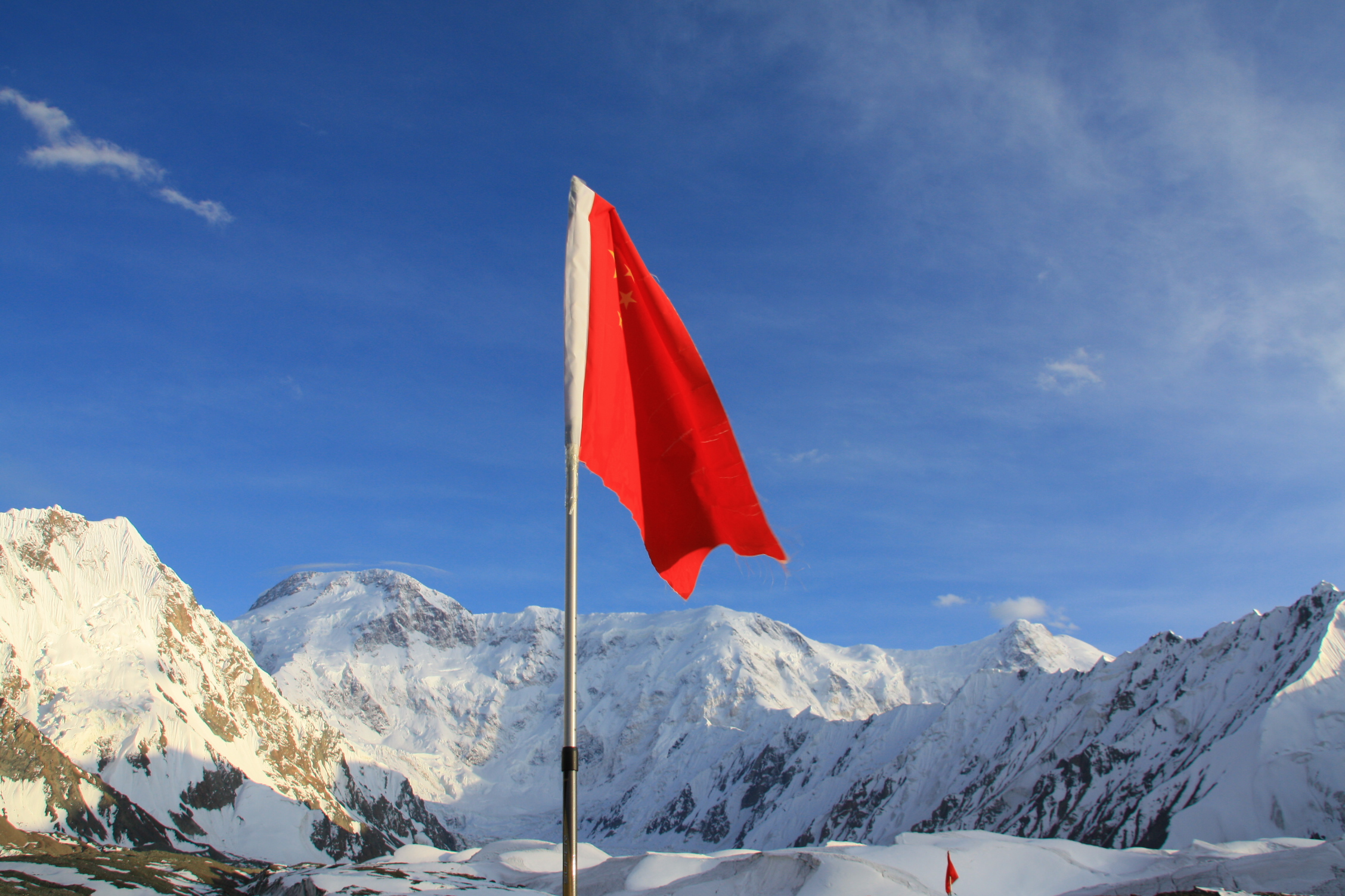 Photograph of the flag of the People's Republic of China.